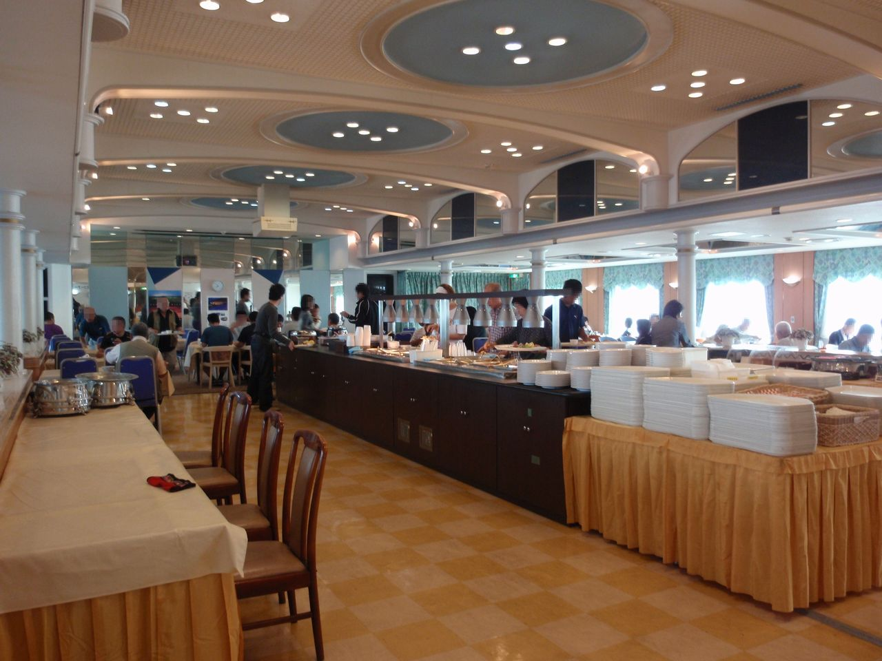 Sunflower Furano Dining room